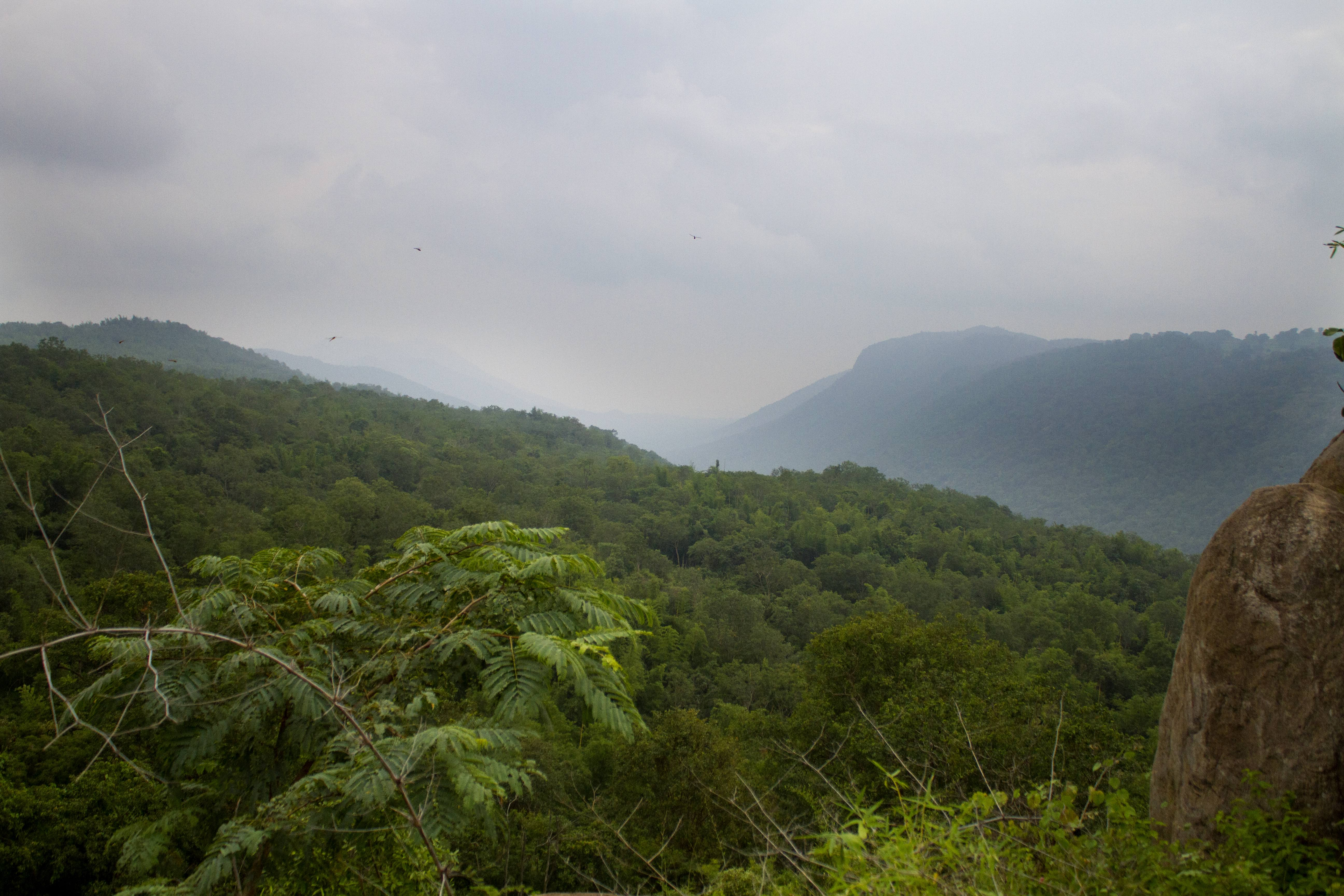 Spider Valley view point